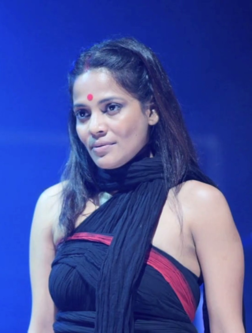 Indian actress Priyanka Bose in the play Nirbhaya by South African playwright Yael Farber based on the 2012 Delhi gang rape; filmed by the Culture Project, New York City.